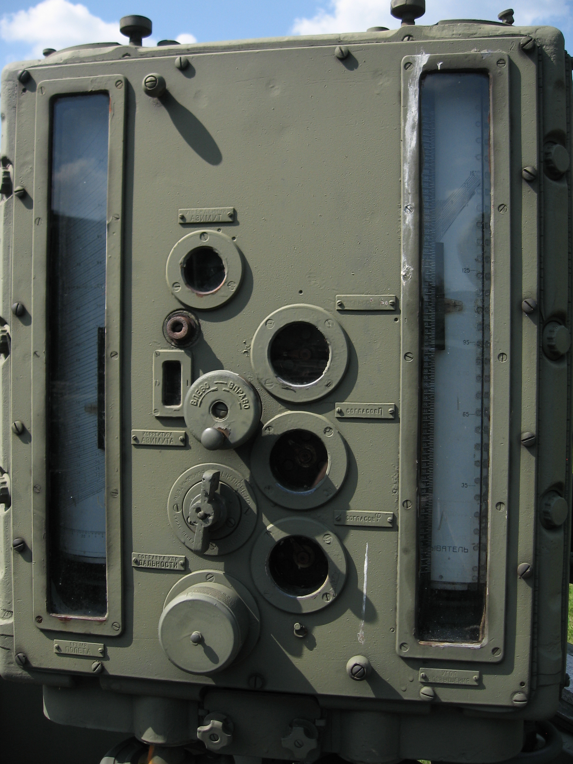 PUAZO-3 fire control computer at the Muzeum Polskiej Techniki Wojskowej in Warsaw.